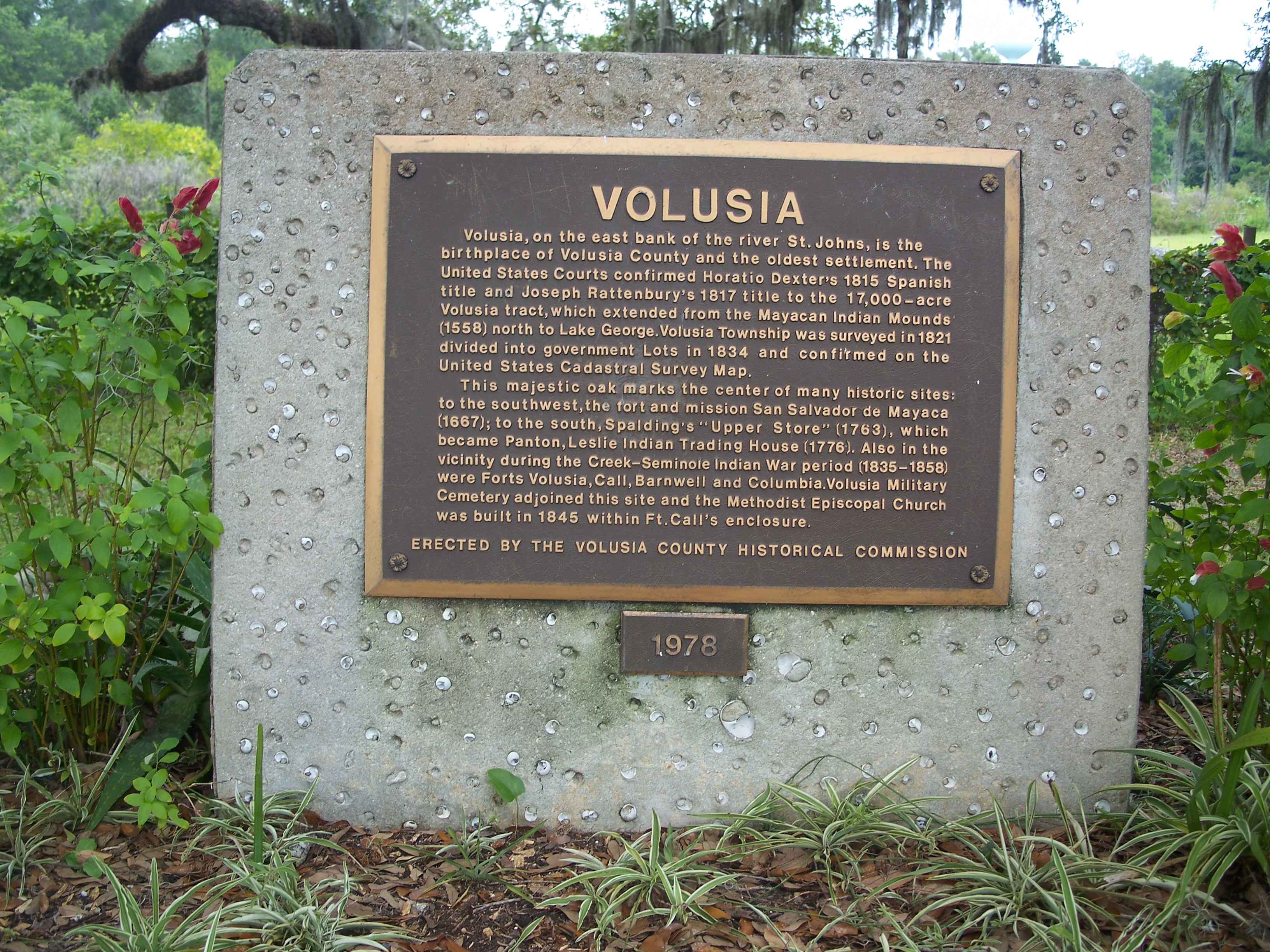 Historic marker by oak in Volusia, Florida, on the St. Johns River.